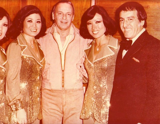 The Kim sisters with their drummer Leonard Esposito and Frank Sinatra.